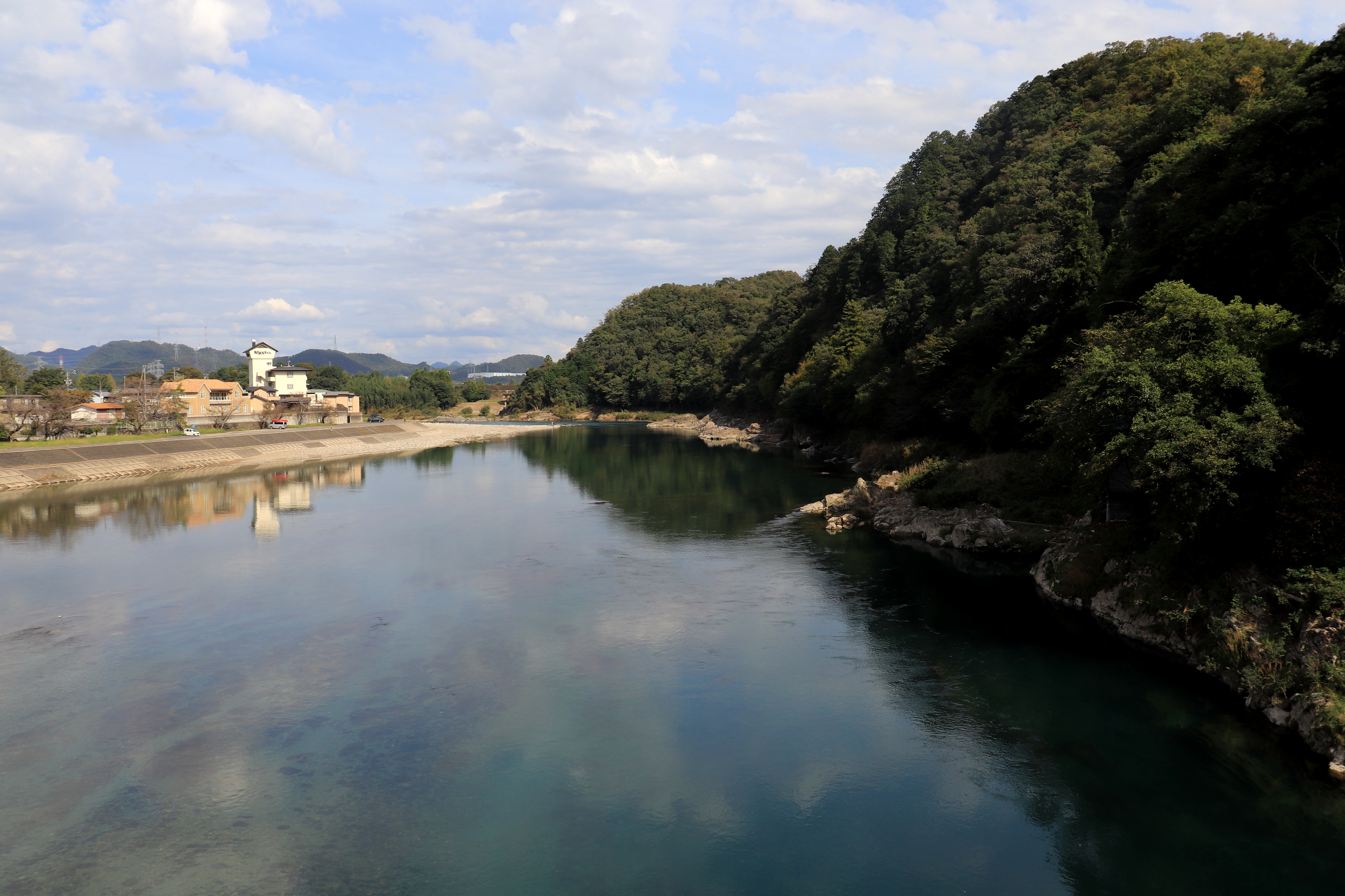 Nagara River seen from Ayunose Bridge of Gifu Prefectural Road Route 290 (Ueno-Seki Line) in Seki, Gifu Prefecture, Japan.